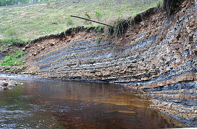 Ballagan Formation This exposure, on the bank of the Tarras Water, is an excellent example of the typical cementstone facies of the Ballagan Formation. The grey layers are siltstones and the buff-coloured ones are dolomite or cementstone. There are some sparse fossils in both the siltstones and the dolomite. In some places the dolomite has formed nodules.This rock was laid down in shallow slow-moving water, perhaps in an esturaine environment. The metal pipe, now protruding a couple of metres above the cliff face, used to be on the brink of the cliff, showing the amount of erosion to which the unstable outcrop has been subjected.